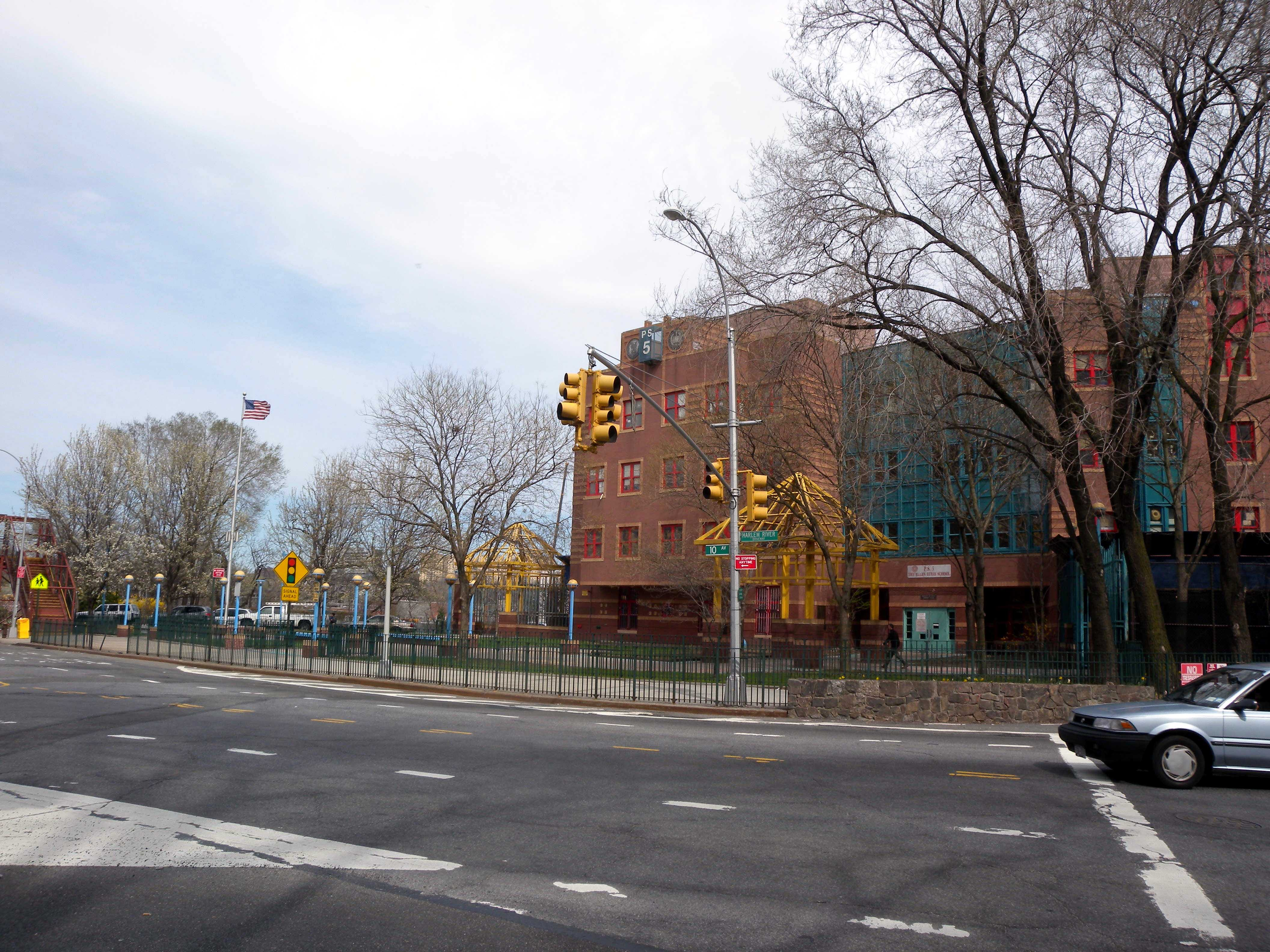 Looking east from Dyckman Street at PS 5, where Harlem River Drive becomes 10th Avenue on a cloudy afternoon.